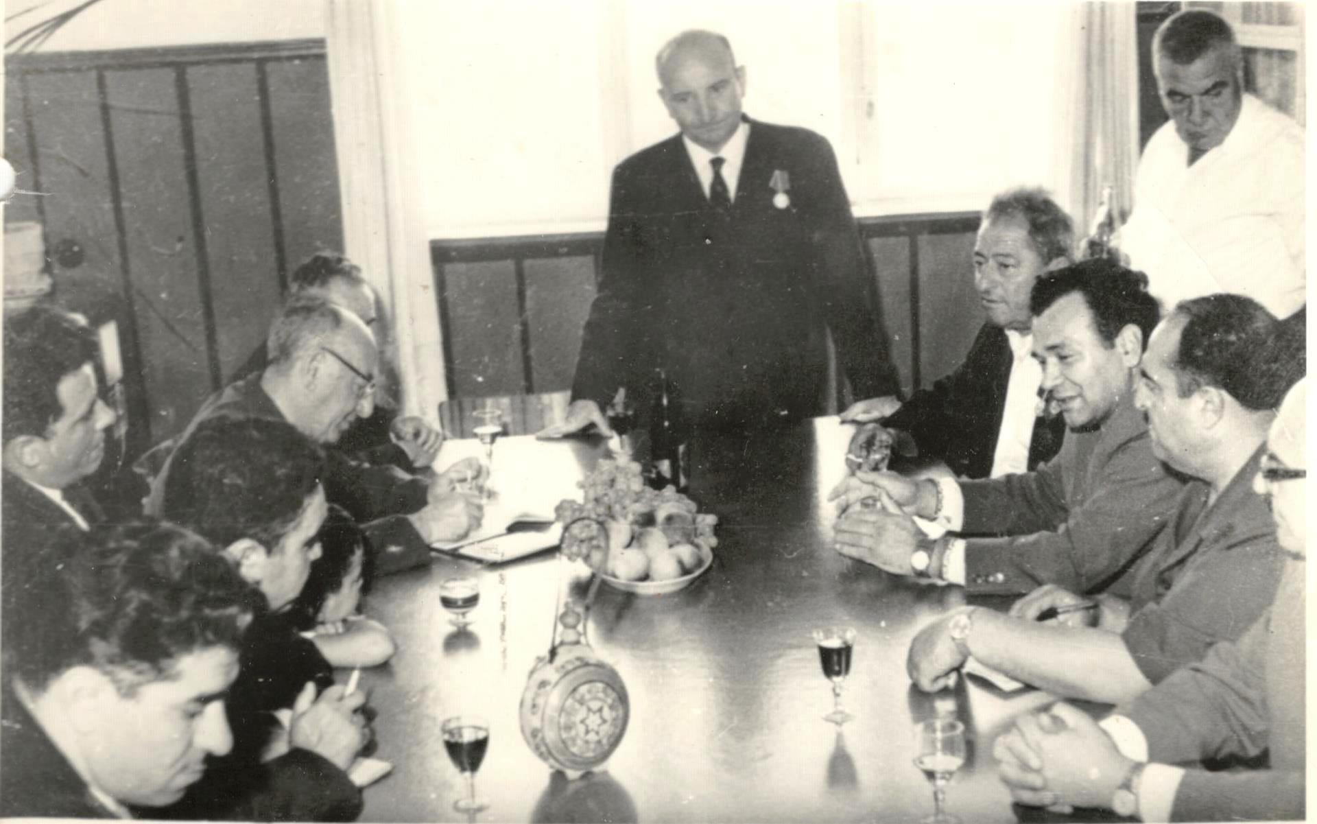 The prime secretary of the Regional Committee of the Bulgarian Communist Party in Razgrad Boncho Mitev (right) accompanied by a Soviet delegation (left) hosted by Yuper Agricultural Labour Cooperative Union officials during the 20th anniversary of the local organisation in 1965.